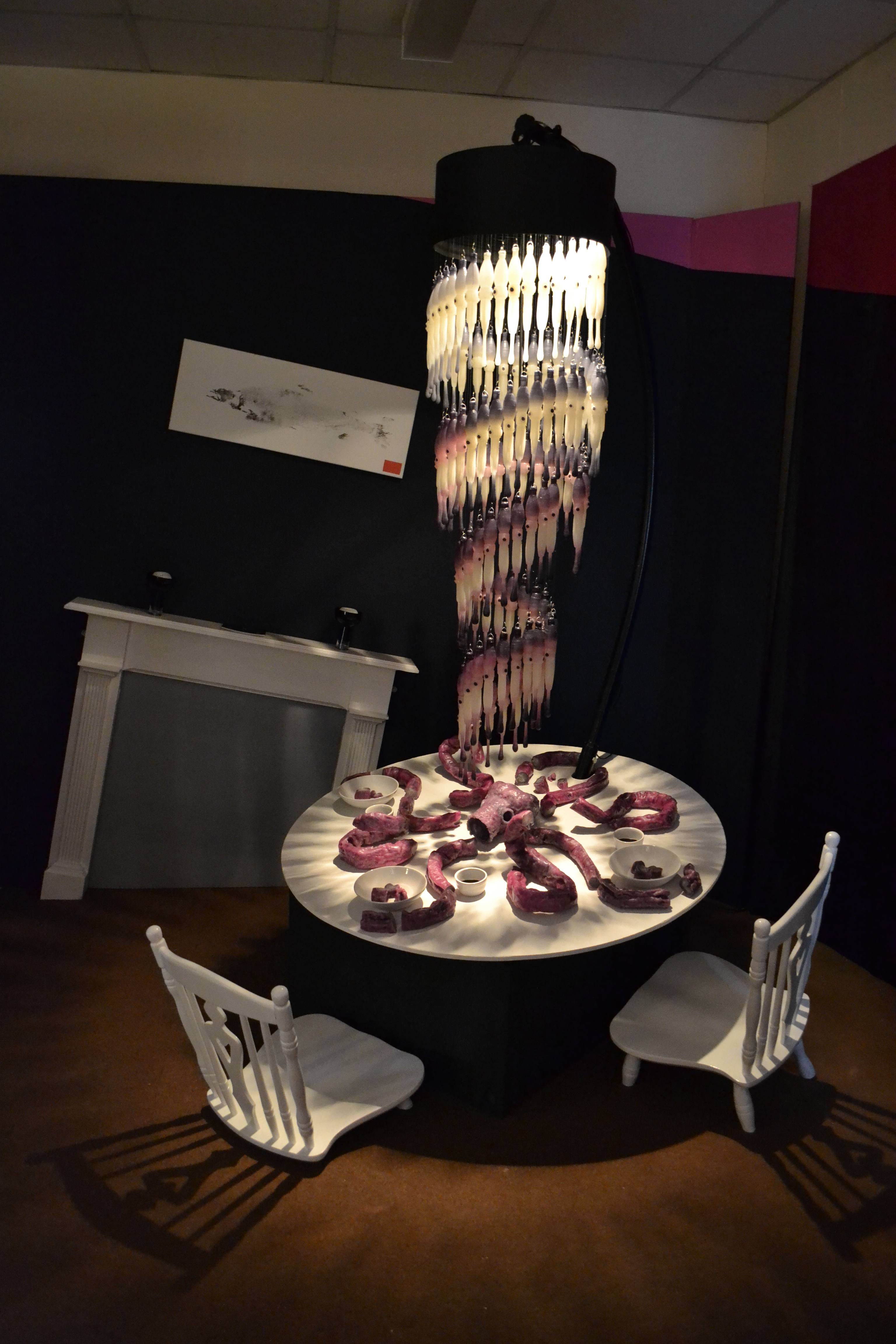 Writtle School of Design exhibition photo